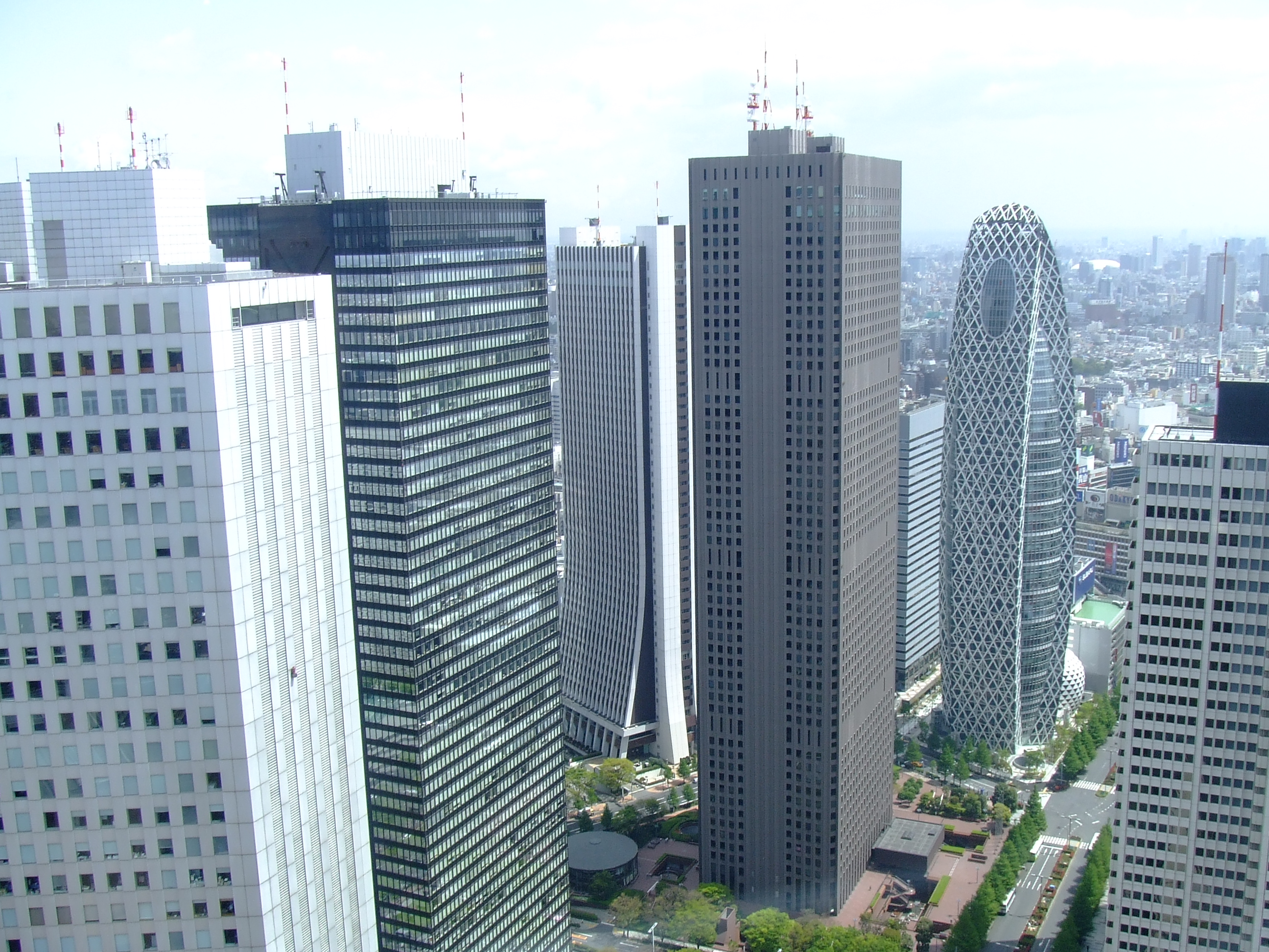 Skyscrapers in Shinjuku